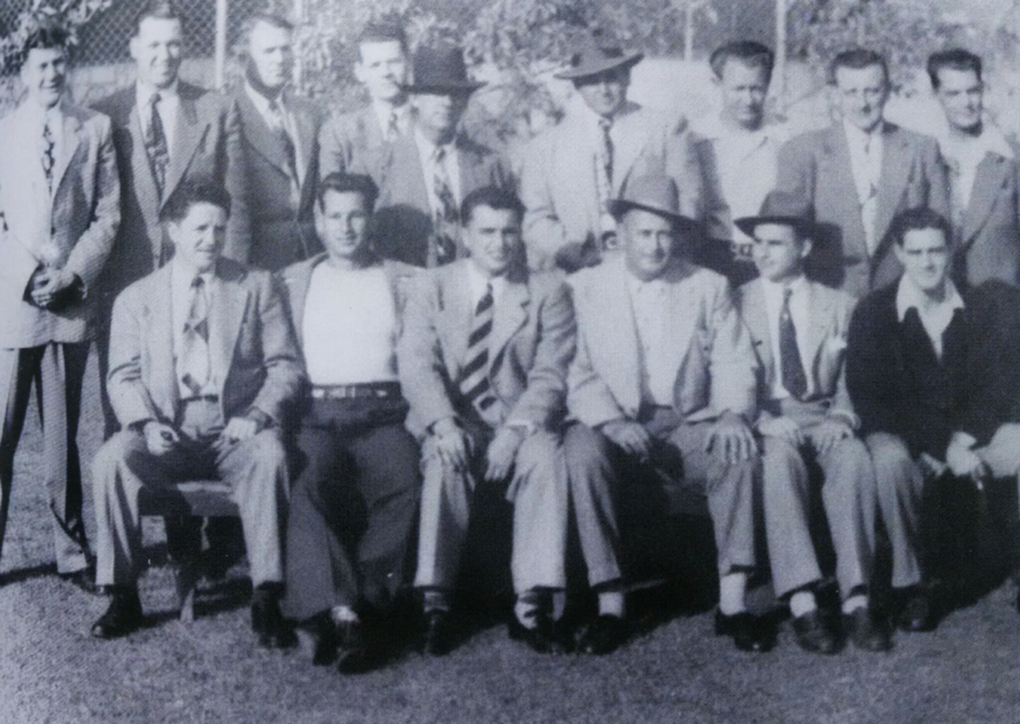 The Gangster Squad, circa 1948. Notable members: Jack O'Mara sits on the far left, bottom row. Doug Kennard stands directly behind O'Mara. Leader, Willie Burns stands in center, wearing dark jacket and hat. Jerry Thomas stands behind Burn's right shoulder. Lindo "Jaco" Giacopuzzi stands to the right of Burns. Archie Case sits below Giacopuzzi. Conwell Keeler is not in this photo, because he took it.